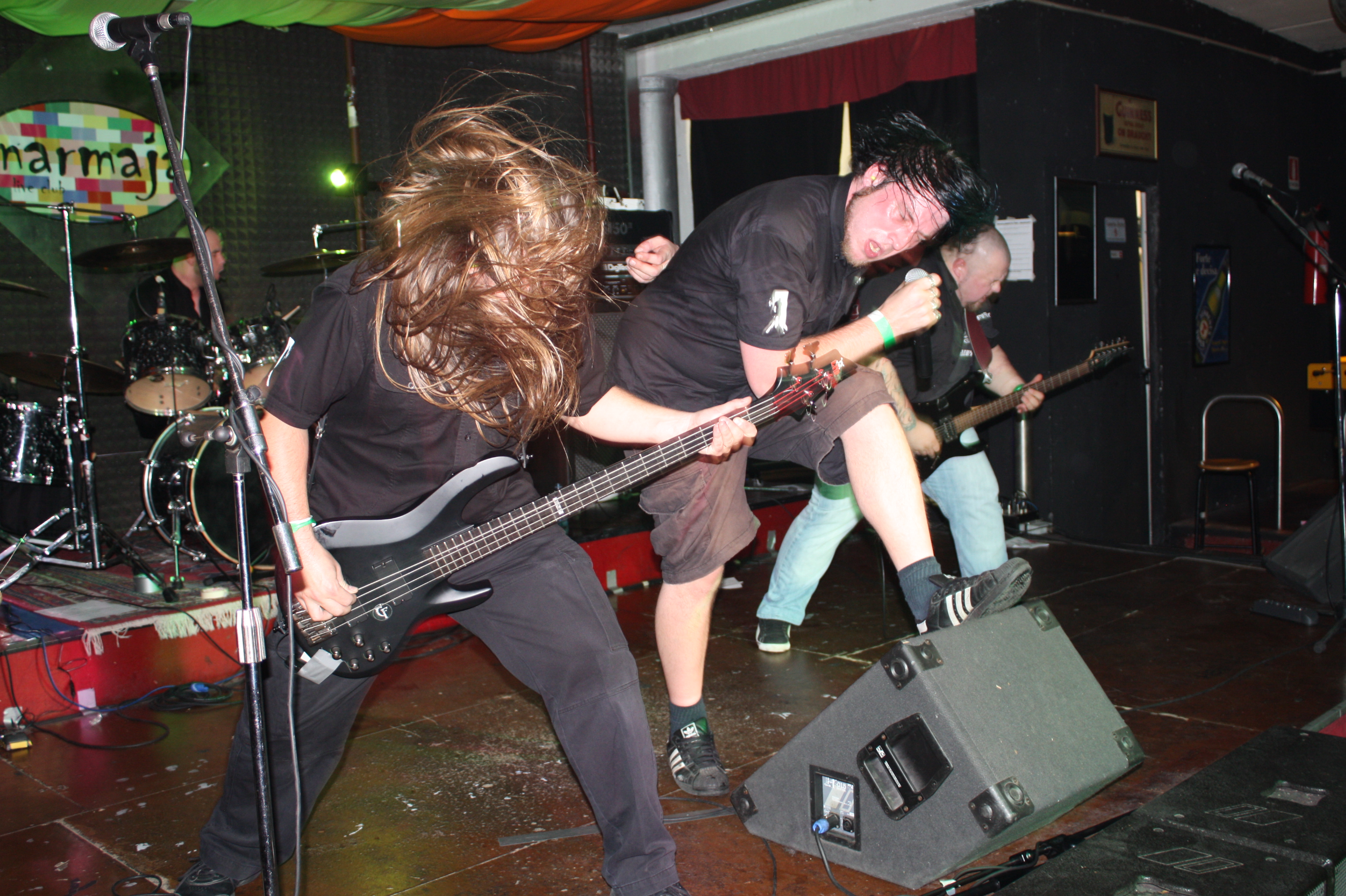 Carnal Forge live